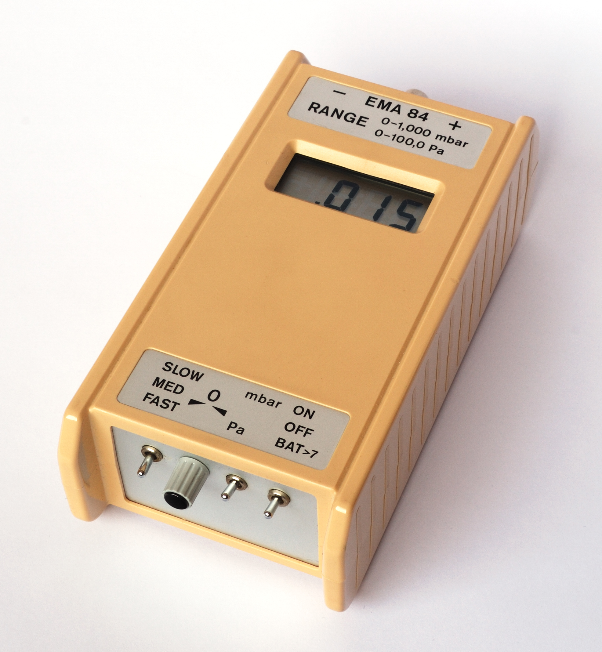 Handheld digitalmanometer Halstrup EMA 84 for measurement of pressure differences.